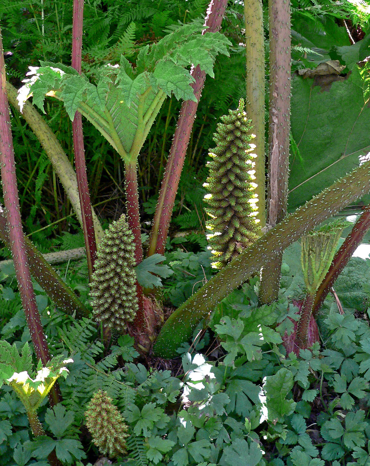 Photo of Gunnera tinctoria at the San Francisco Botanical Garden